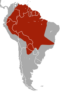 Giant Armadillo (Priodontes maximus) range